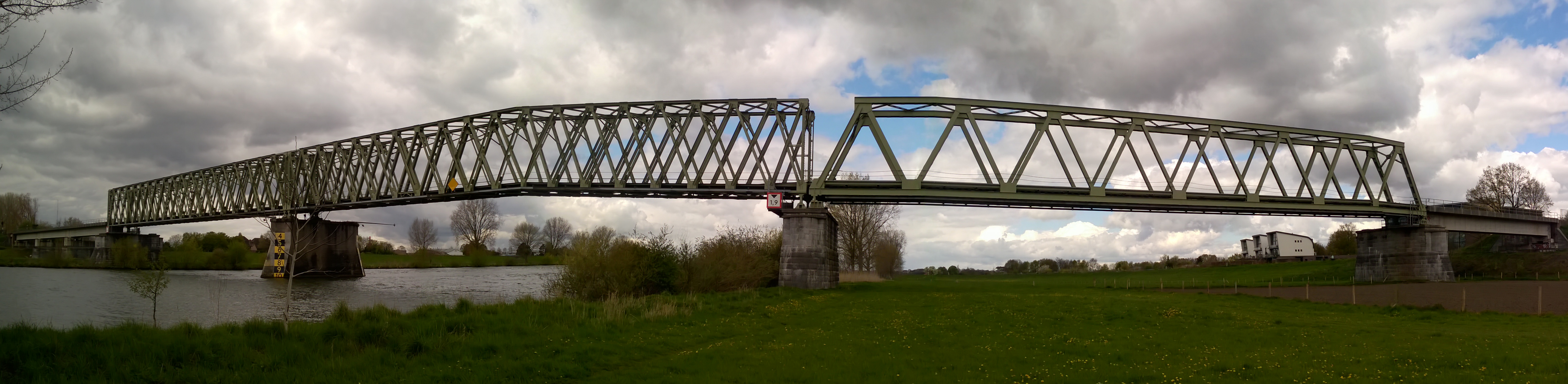 Railway bridge over the Meuse in the Netherlands